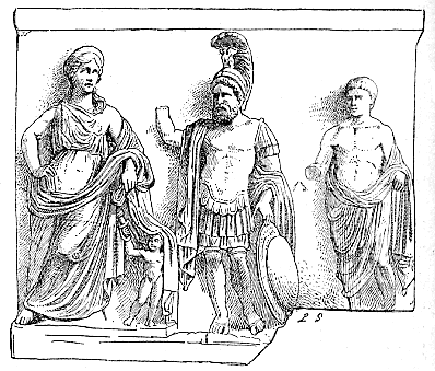 Relief from Algiers. Replica of group in cella of the temple of Mars Ultor.